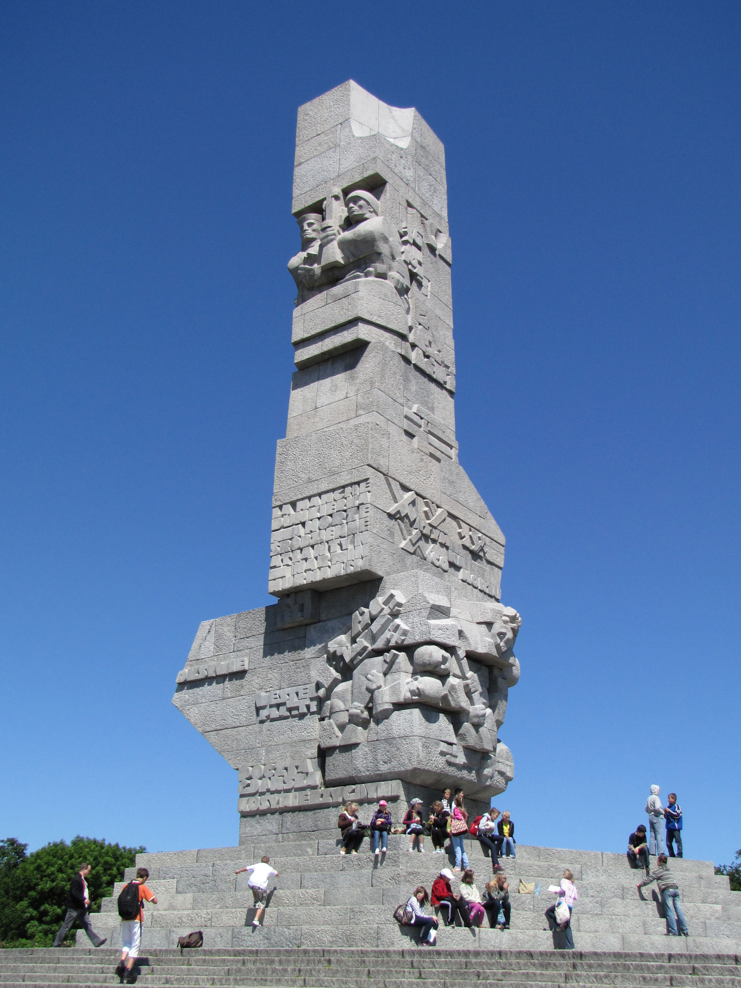 Westerplatte-Monument nearby Gdańsk